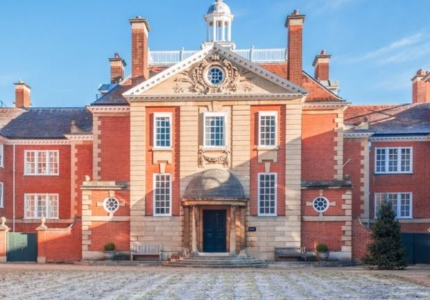 Lady Margaret Hall Oxofrd Talbot Hall